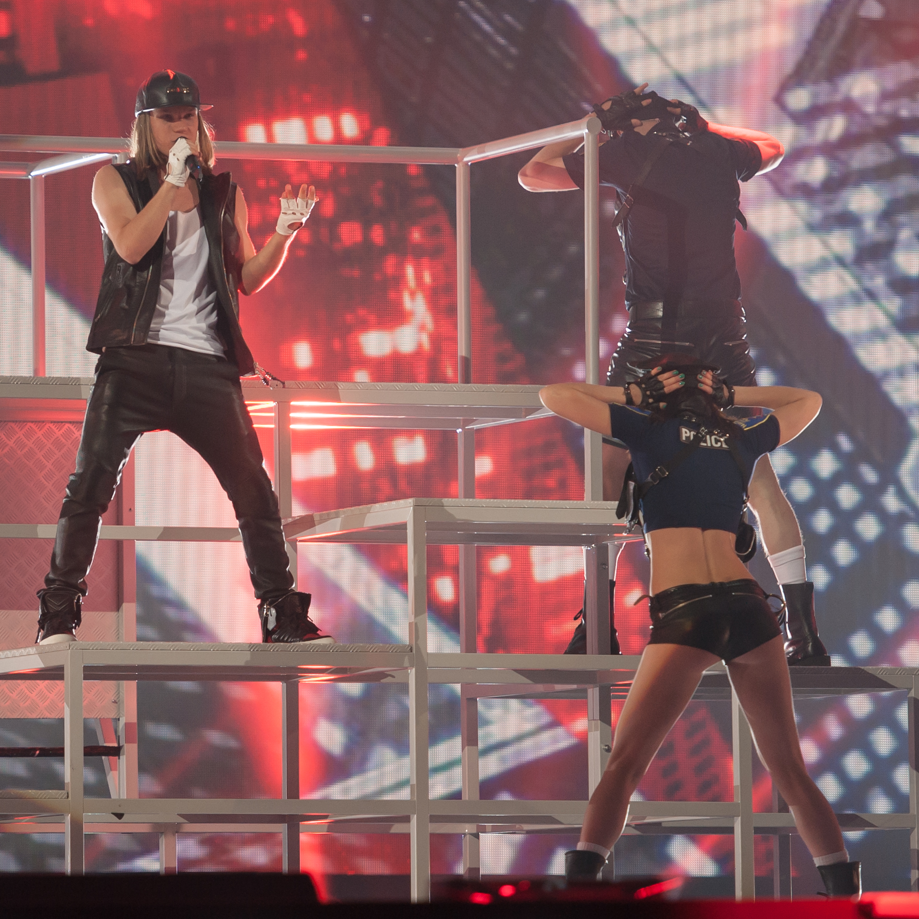 Eurovision Song Contest Vienna 2015: Eduard Romanyuta, Moldova